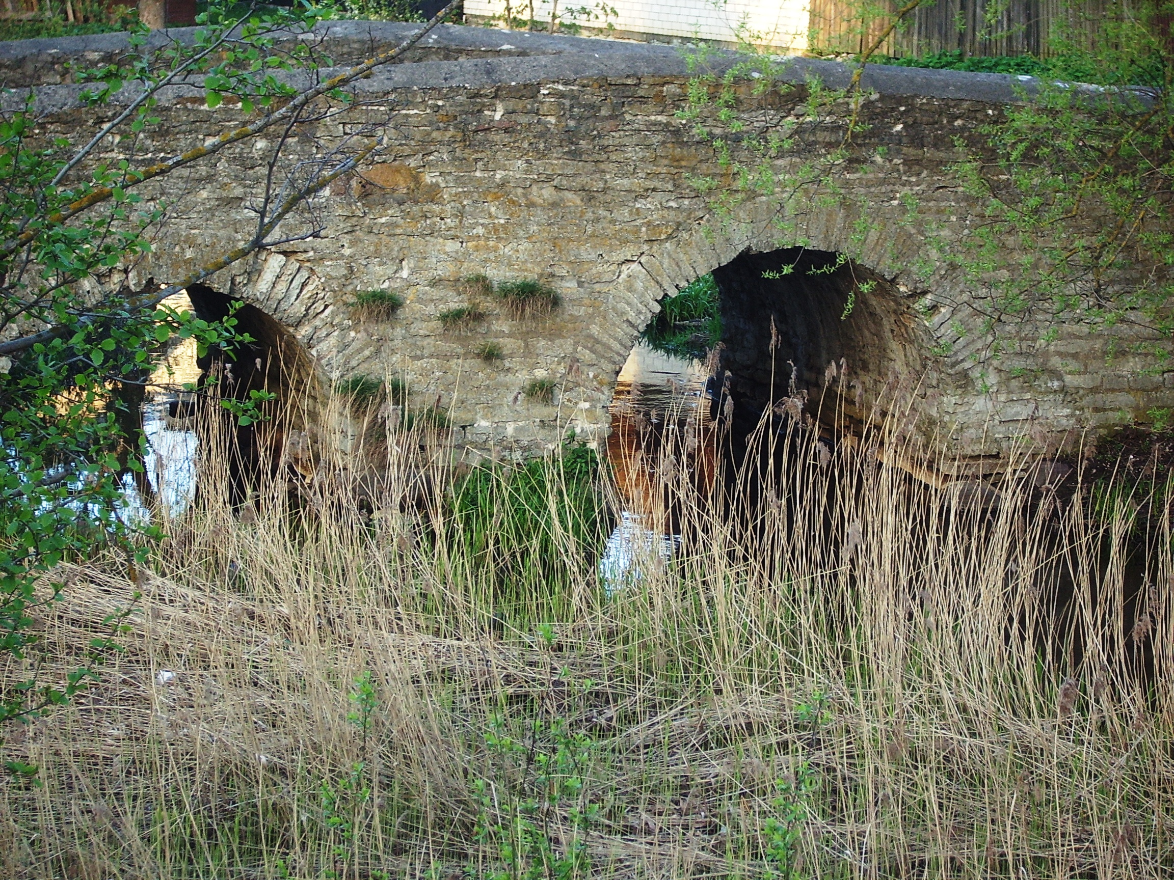 Pääsküla stone bridge, Tallinn